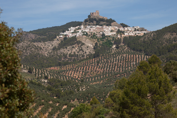 Segura de la Sierra, Andalucía, Jaén, Spain; ; ref PM_091670_E_Segura_de_la_Sierra; el pueblo y el castillo; Photographer: Paul M.R. Maeyaert; © Paul M.R. Maeyaert; ; Cultural heritage; Europeana; Europe/Spain/Segura de la Sierra